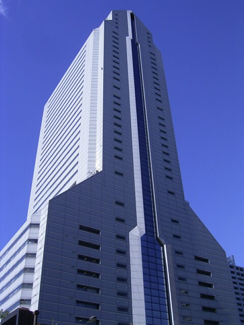 Photograph of NEC Super Tower, headquarters of NEC Corporation, in Minato-ku, Tokyo, Japan, taken on 13 November 2006 by original uploader. 日本電気本社（NECスーパータワー）（東京都港区芝） 2006/11/13 KW撮影